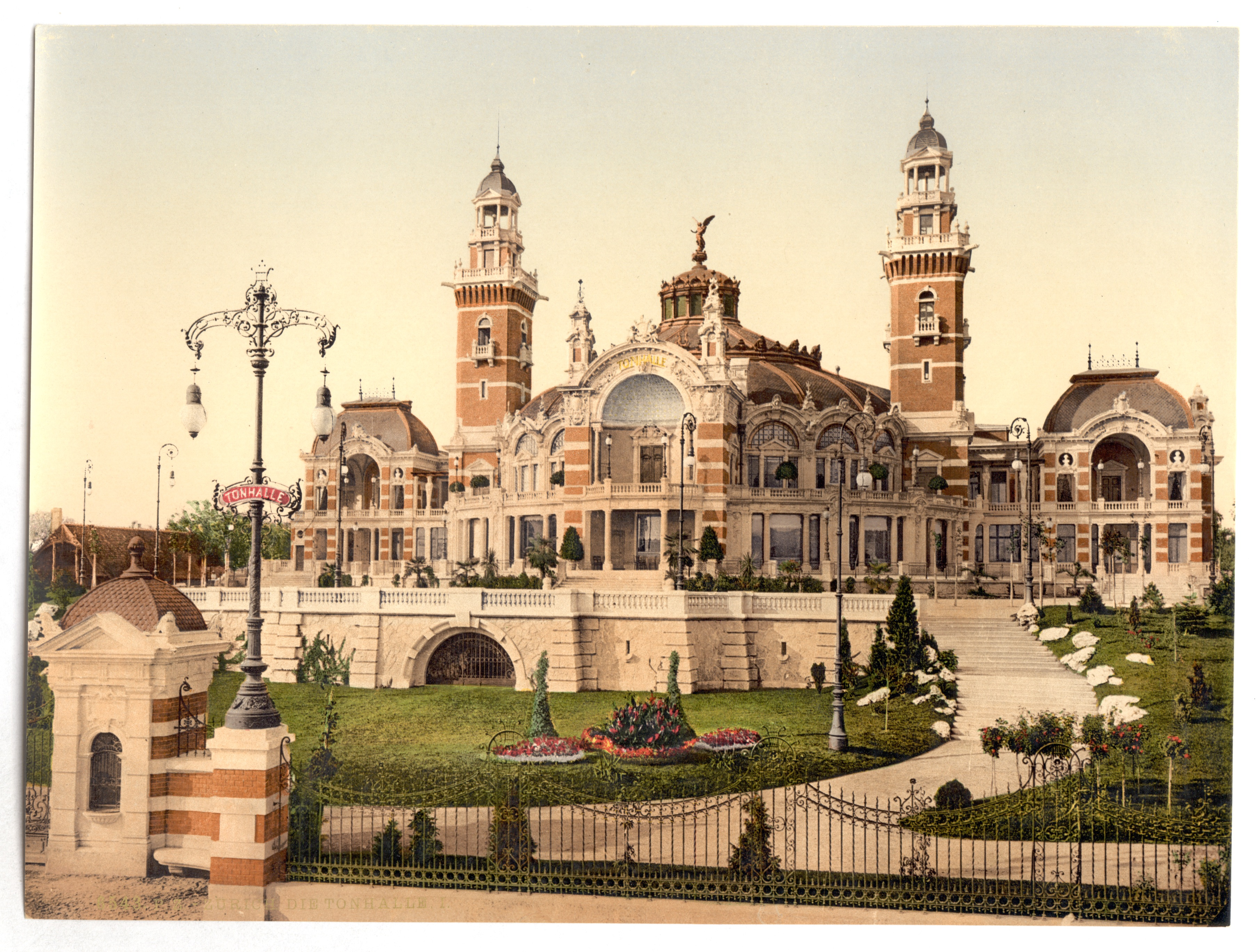 Forms part of: Views of Switzerland in the Photochrom print collection.; Title from the Detroit Publishing Co., Catalogue J-foreign section, Detroit, Mich. : Detroit Publishing Company, 1905.; Print no. "6543".